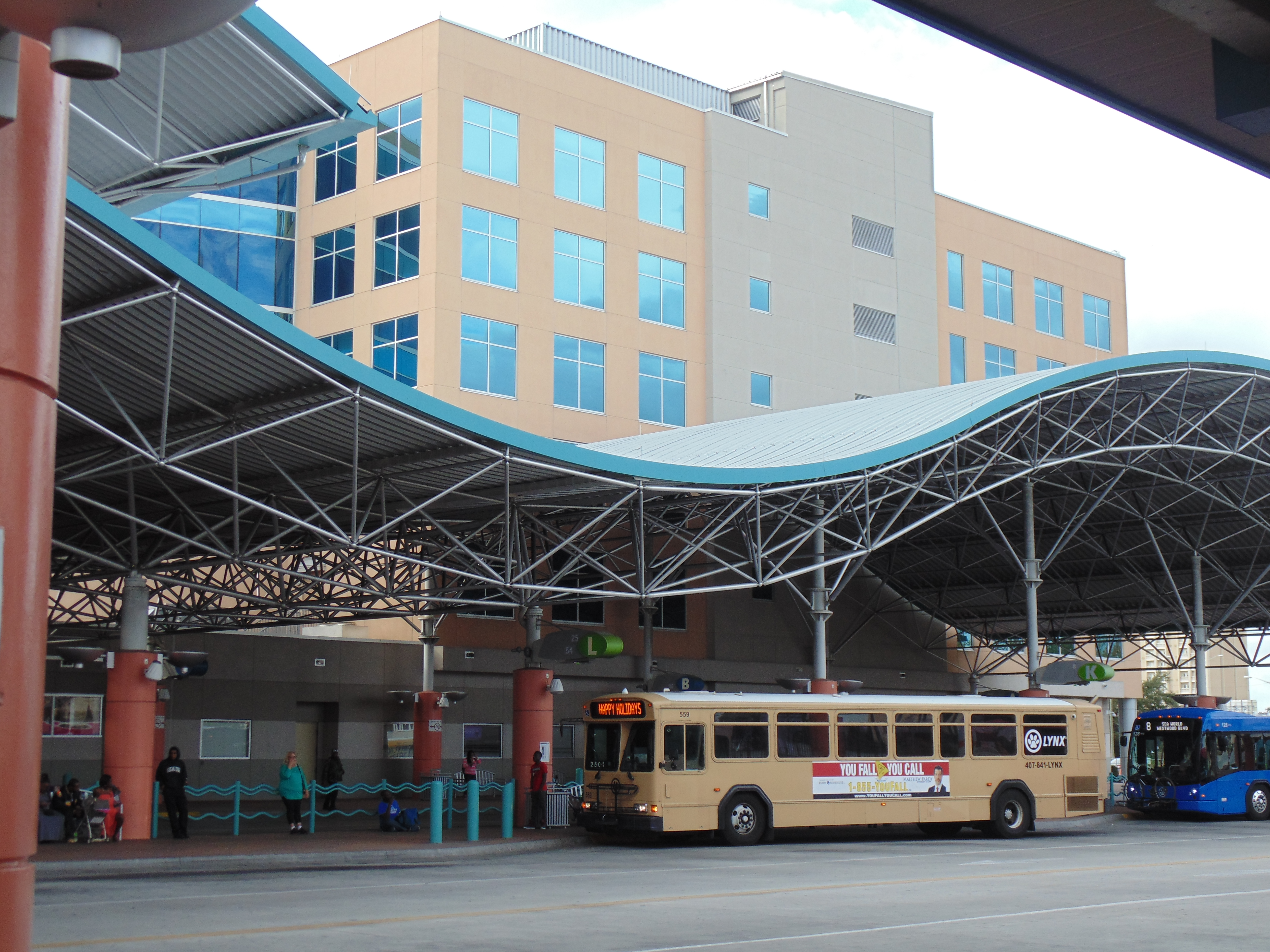 LYNX Central Station bus terminal in downtown Orlando